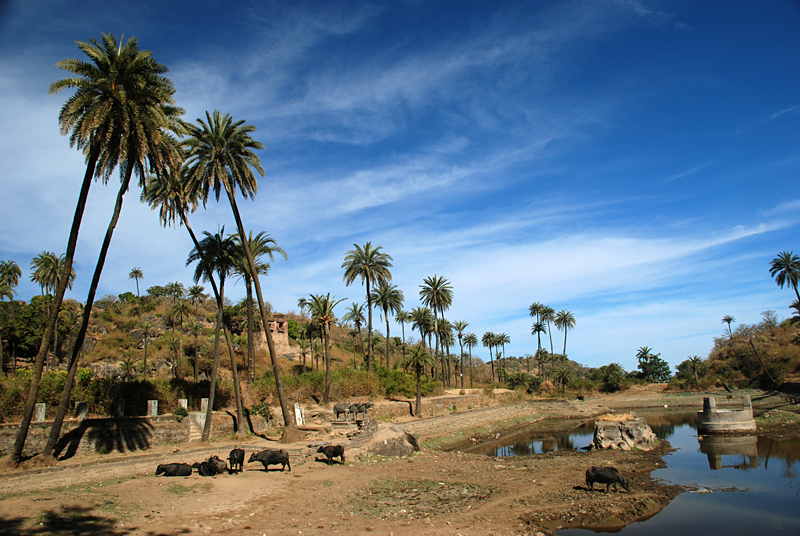 The Achalgarh